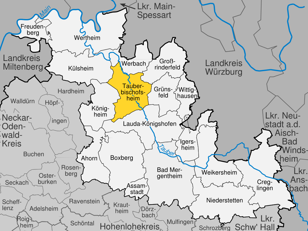 position of Tauberbischofsheim within the Main-Tauber-Kreis, Baden-Württemberg, Germany